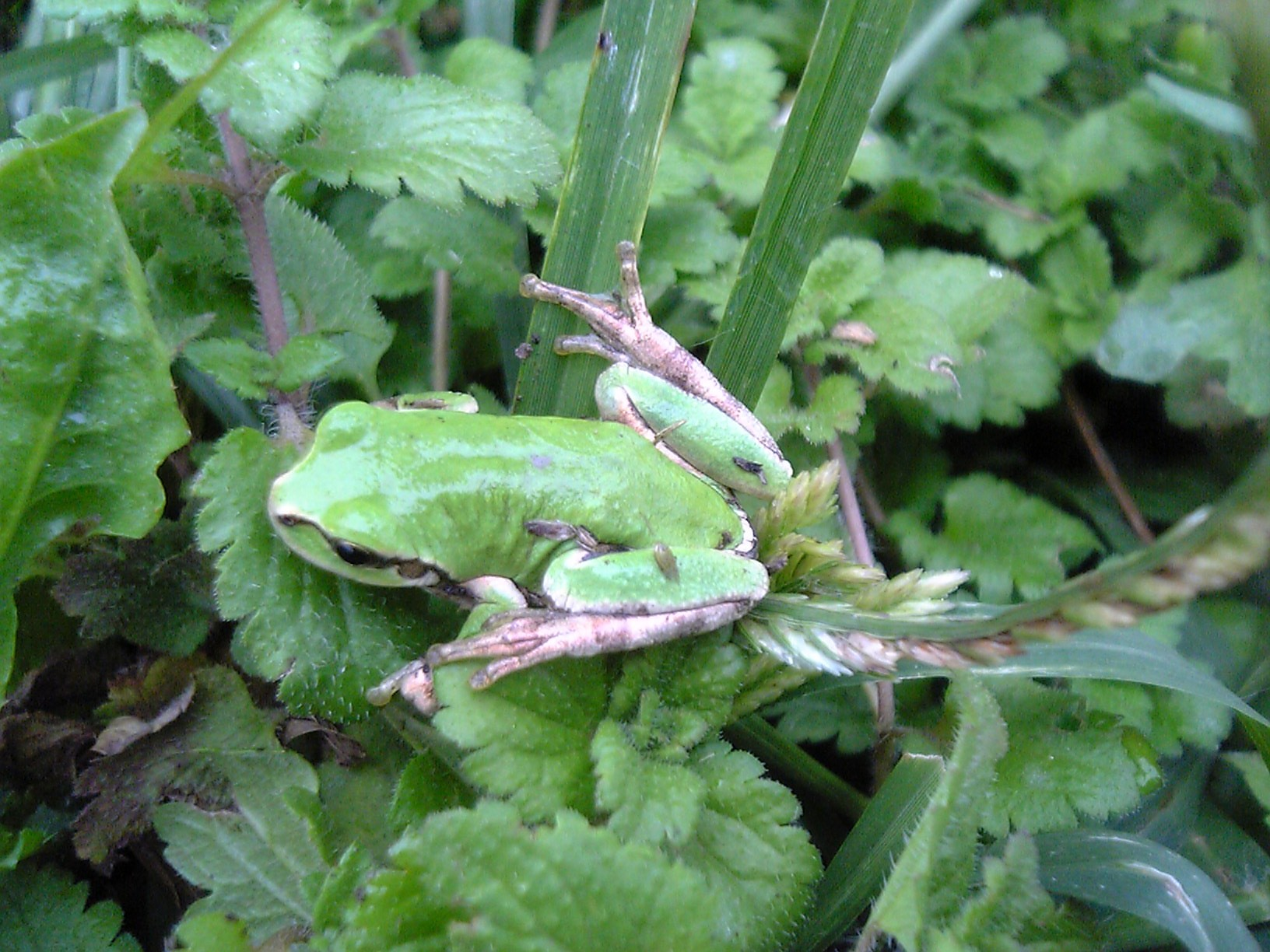 Tree frog which is wet in the grass dew and which sticks the seed of the plant on the body.